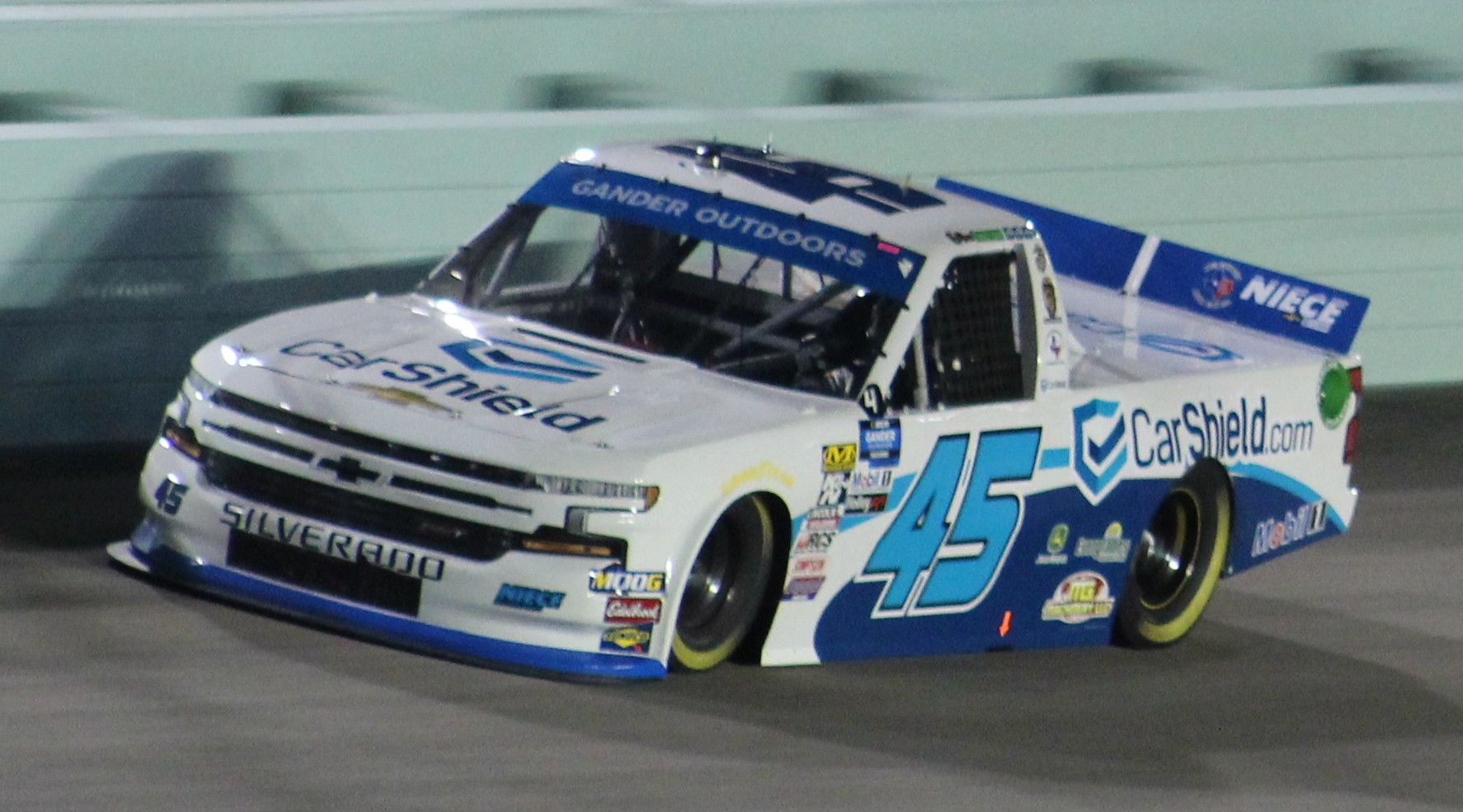 Ross Chastain's No. 45 CarShield Chevrolet at Homestead–Miami Speedway in 2019